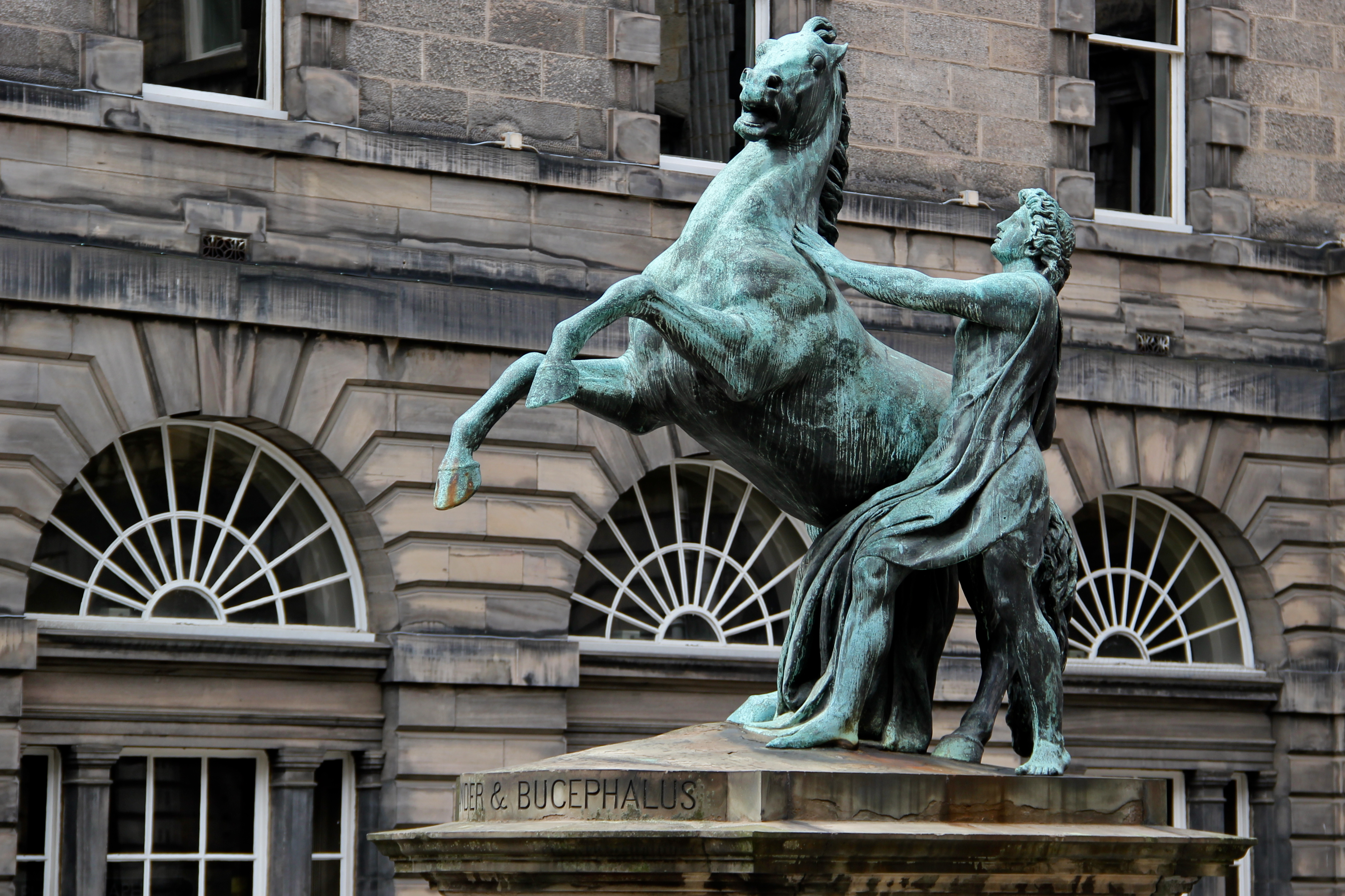 Alexander & Bucephalus by John Steell located in front of Edinburgh's City Chambers. Modelled 1832, cast in bronze 1883, presented to the city by the subscribers 1884.